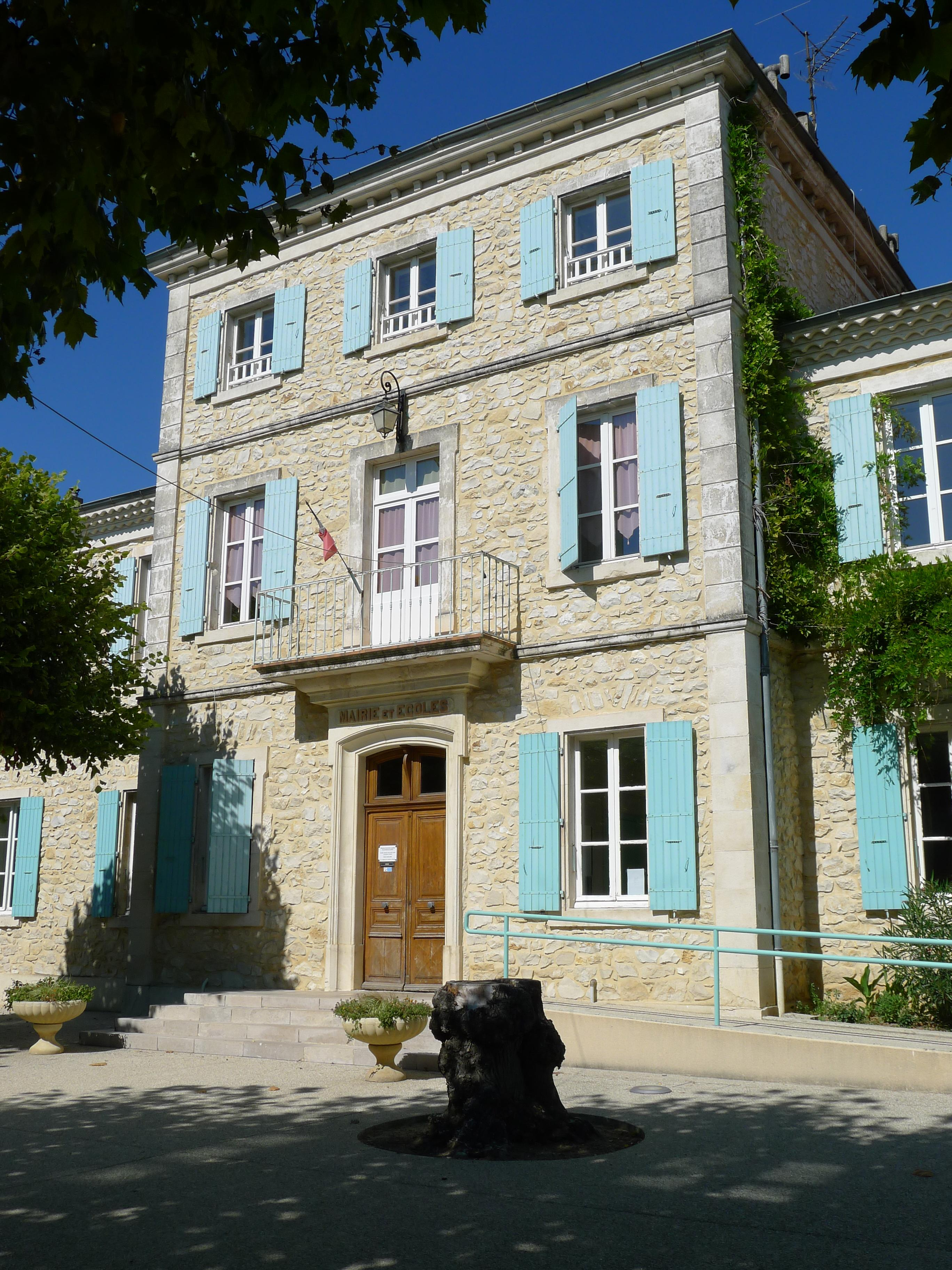 Town hall and school of Savasse - Drôme - France